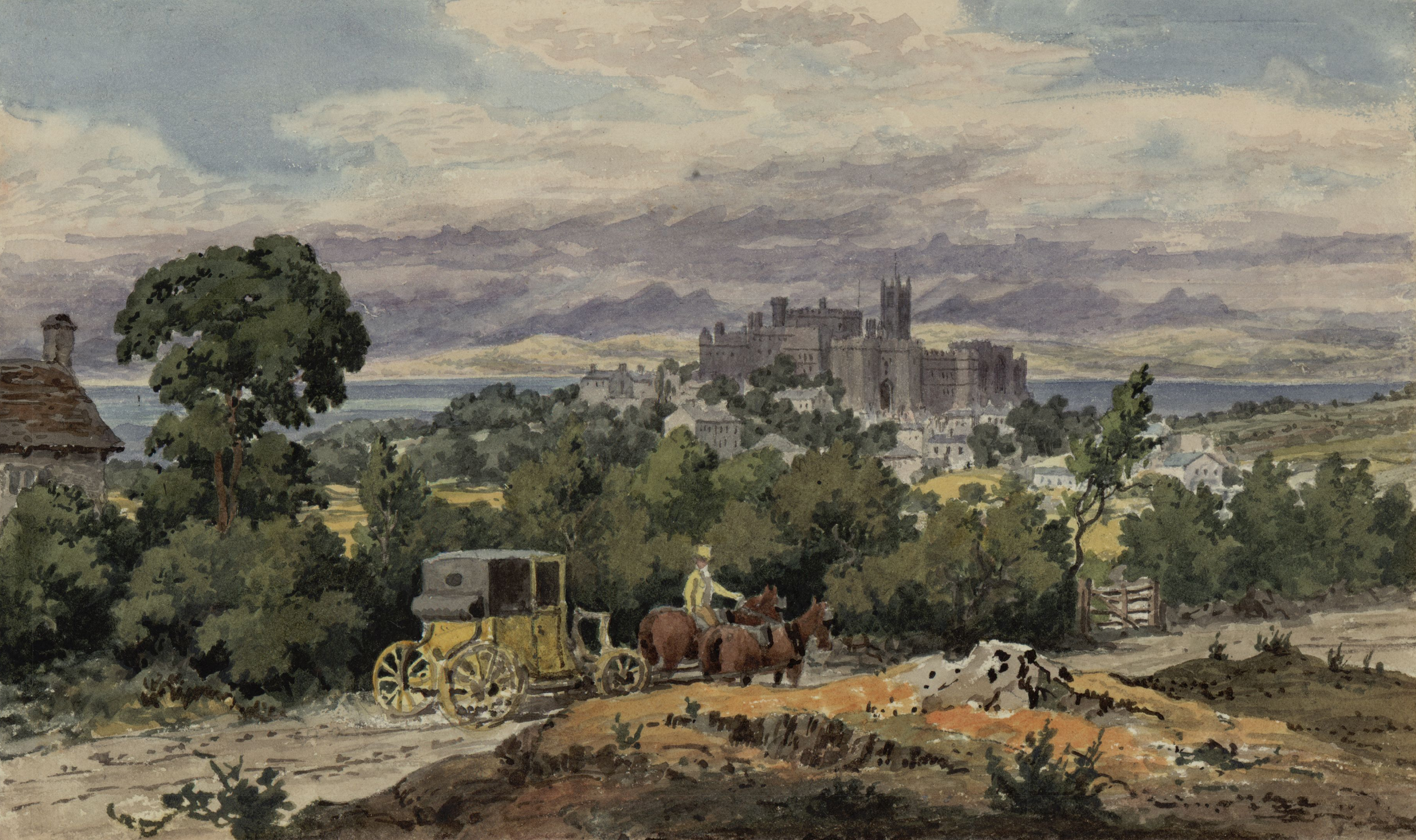 The English Lakes. Selected views from a sketchbook (36 drawings) : mixed media, including watercolour and pencil ; 27 x 40 cm.